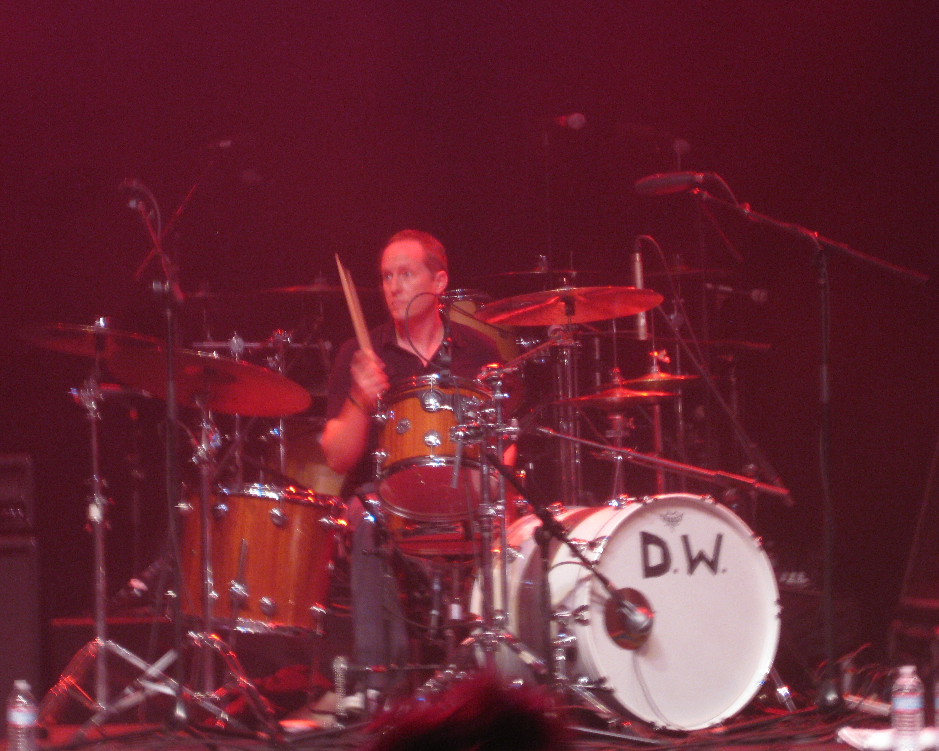 Drummer Josh Freese of The Vandals performing December 18, 2011 at the Santa Monica Civic Auditorium in Santa Monica, California as part of the GV30 event.